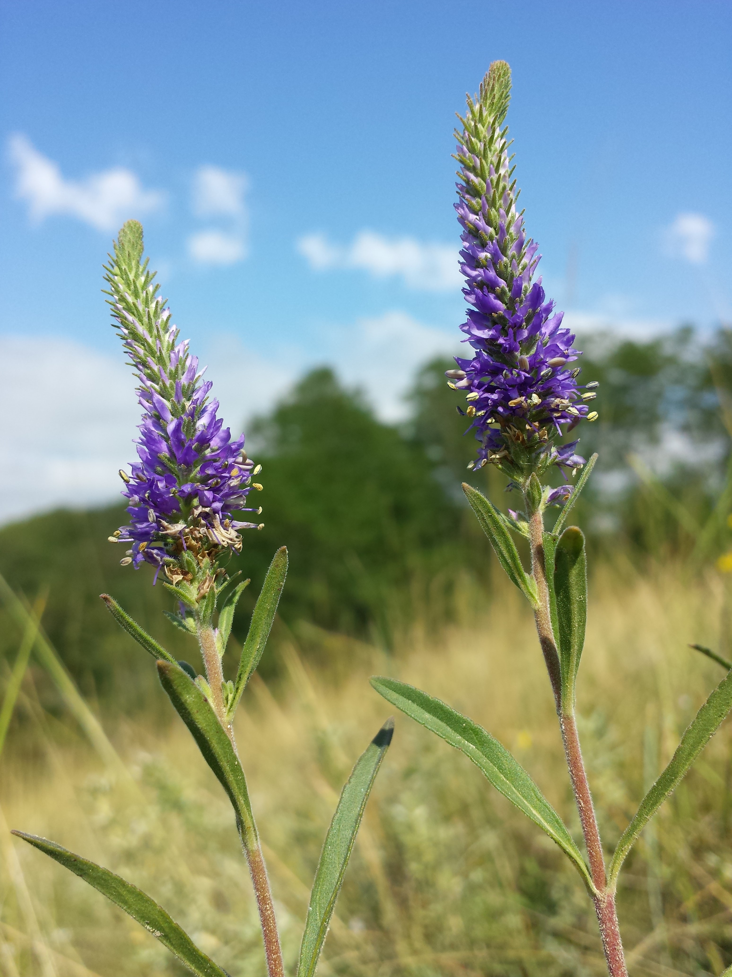 Florescences Taxon: Veronica spicata (sensu Fischer et al. EfÖLS 2008 ISBN 978-3-85474-187-9) Location: Loess hill to the west of Großebersdorf, district Mistelbach, Lower Austria - ca. 200 m a.s.l. Habitat: dry grassland on Loess